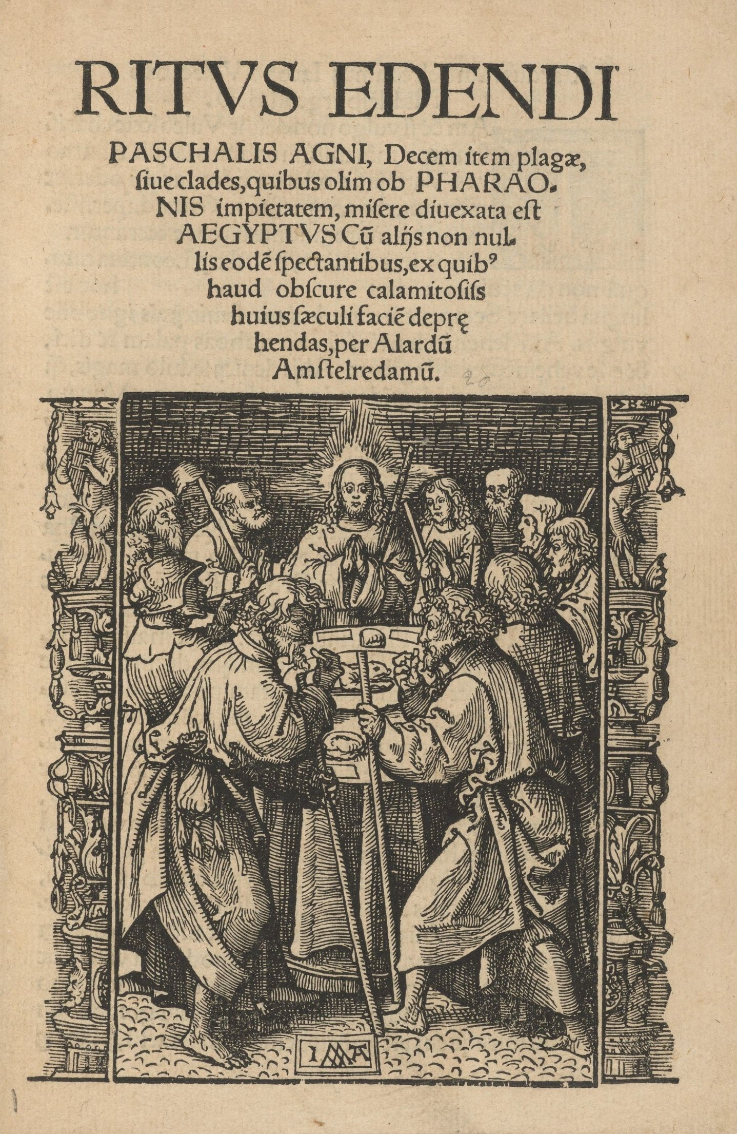 Cover image from Ritus edendi paschalis agni, Amsterdam: 1523, by Alardus Amstelredamus ("Alardus of Amsterdam", 1491–1544). Typ 532.23.132, Houghton Library, Harvard University